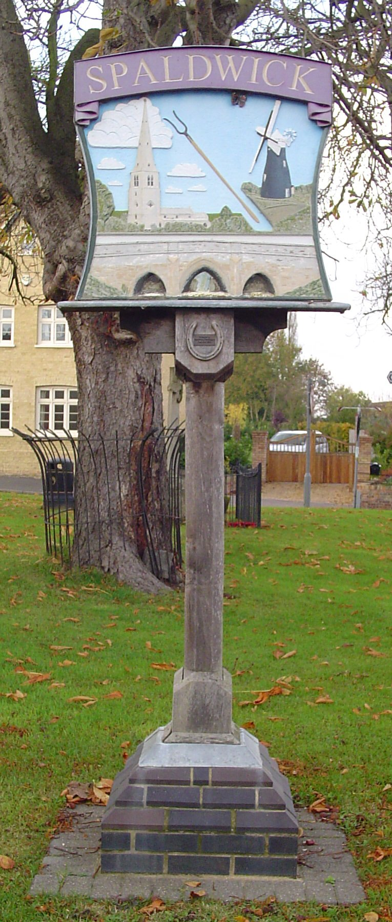 Signpost in Spaldwick